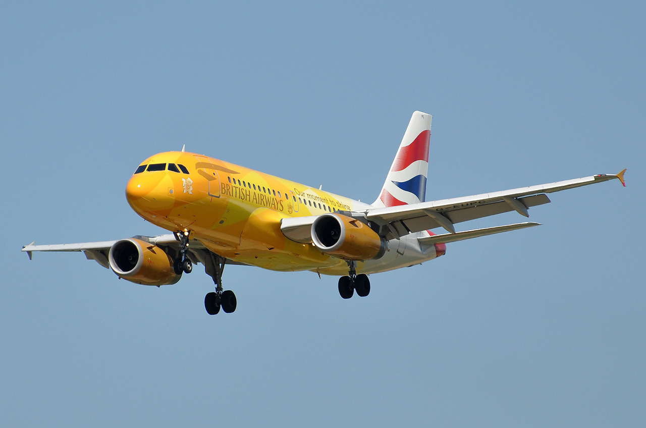 British Airways A319-131 (G-EUPC) in special Olympic Flame livery at Brussels - National (Zaventem) Airport.